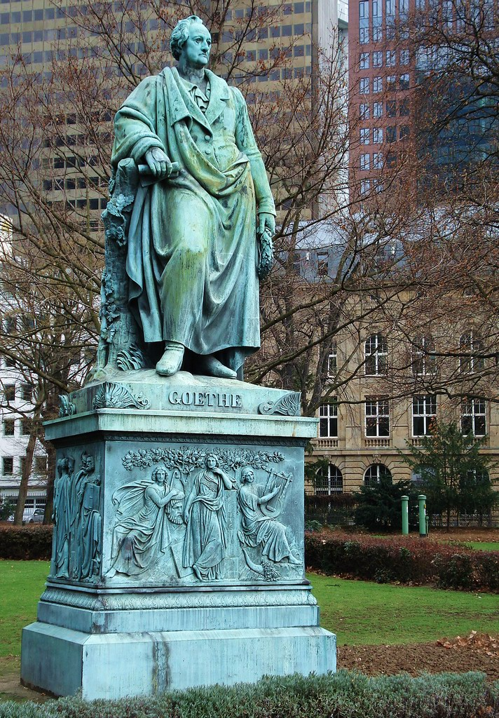 Statue of Goethe in Frankfurt am Main, Germany